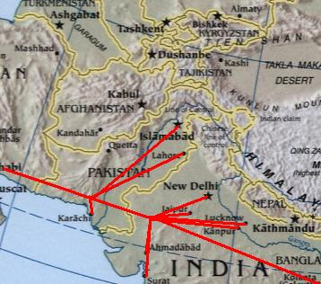 Modified :Image:Sino-Indian Geography.png, created and published by the Central Intelligence Agency of the United States of America in 2004. The modified version was released by Deepak Gupta under Public Domain.